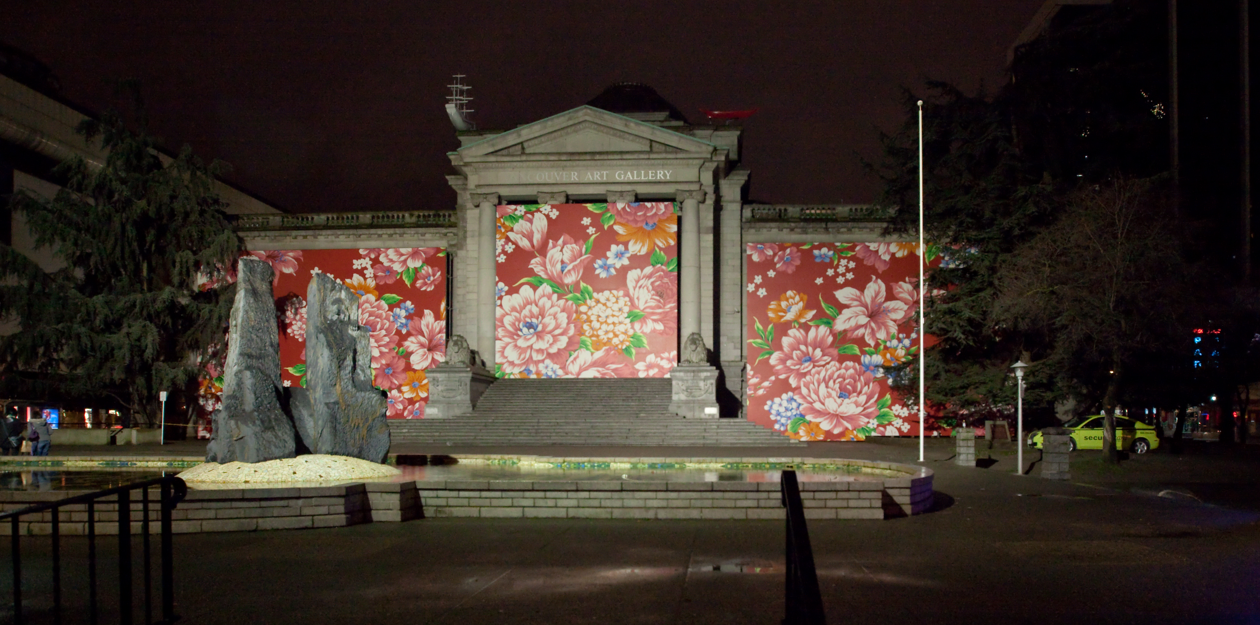 A Modest Veil covers the Vancouver Art Gallery